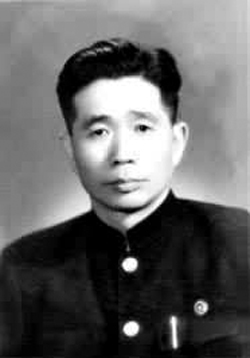 Mei Yangchun